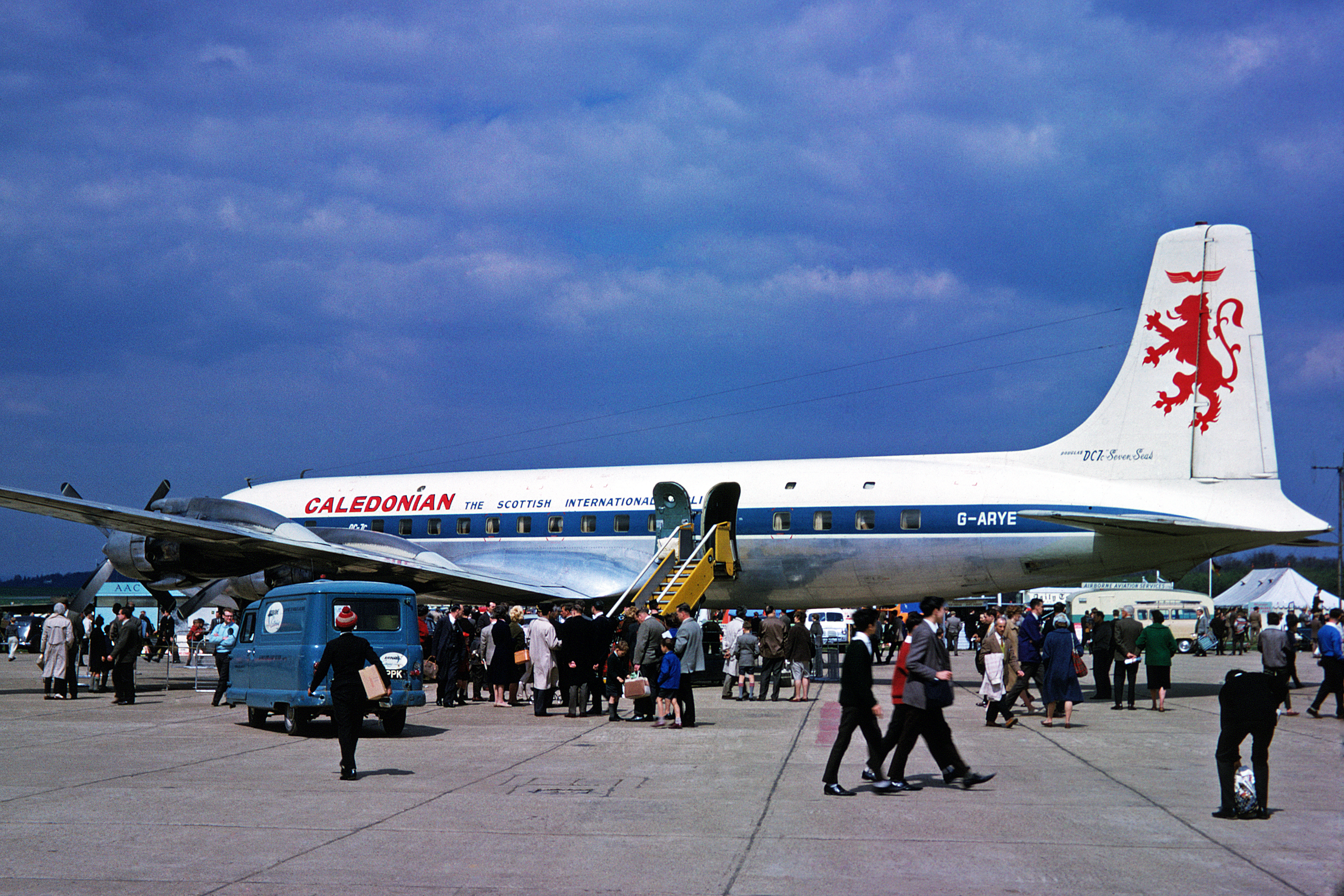 Caledonian Airways Douglas DC-7C (G-ARYE) at the Biggin Hill International Air Fair